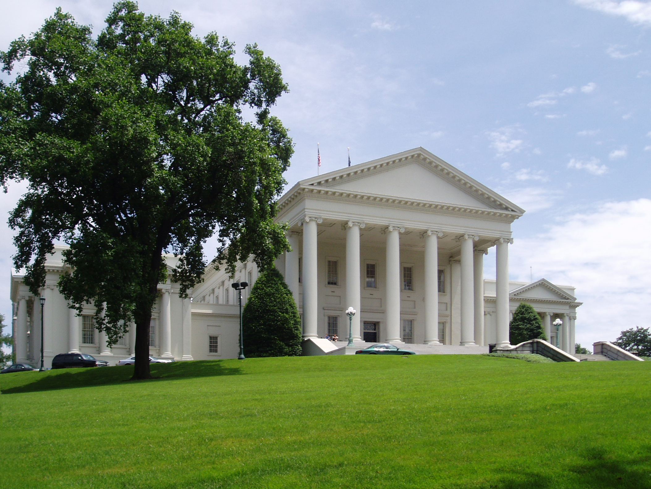 Photo of the Virginia State Capitol before renovations.